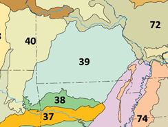 Map showing the Ozark Highlands (39) ecoregion as defined by USEPA, with adjacent Level III ecoregions